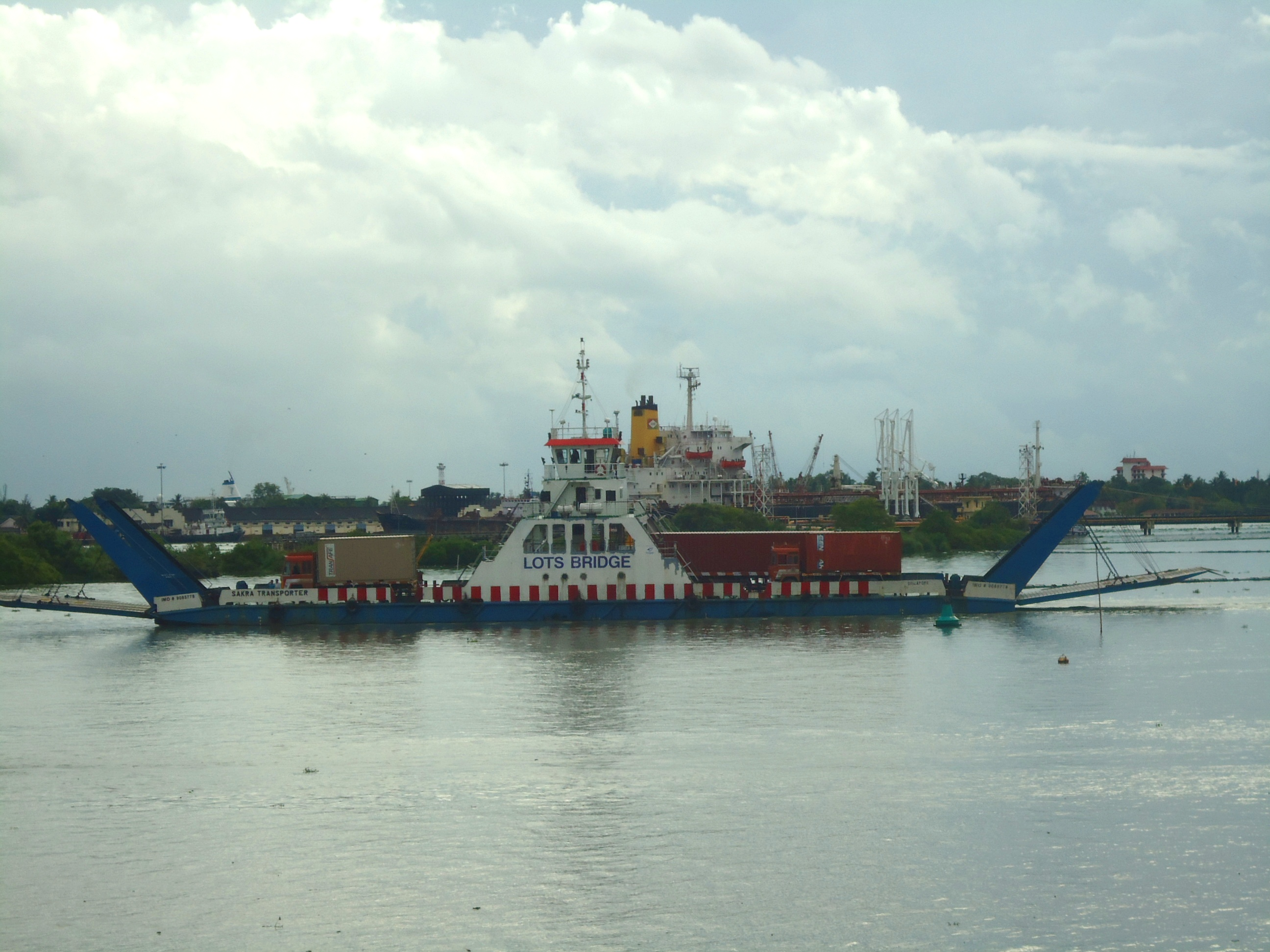 Row-row barge service between vallarpadam container terminal and Wellington Island in Kochi. Moves containers between the two ports.